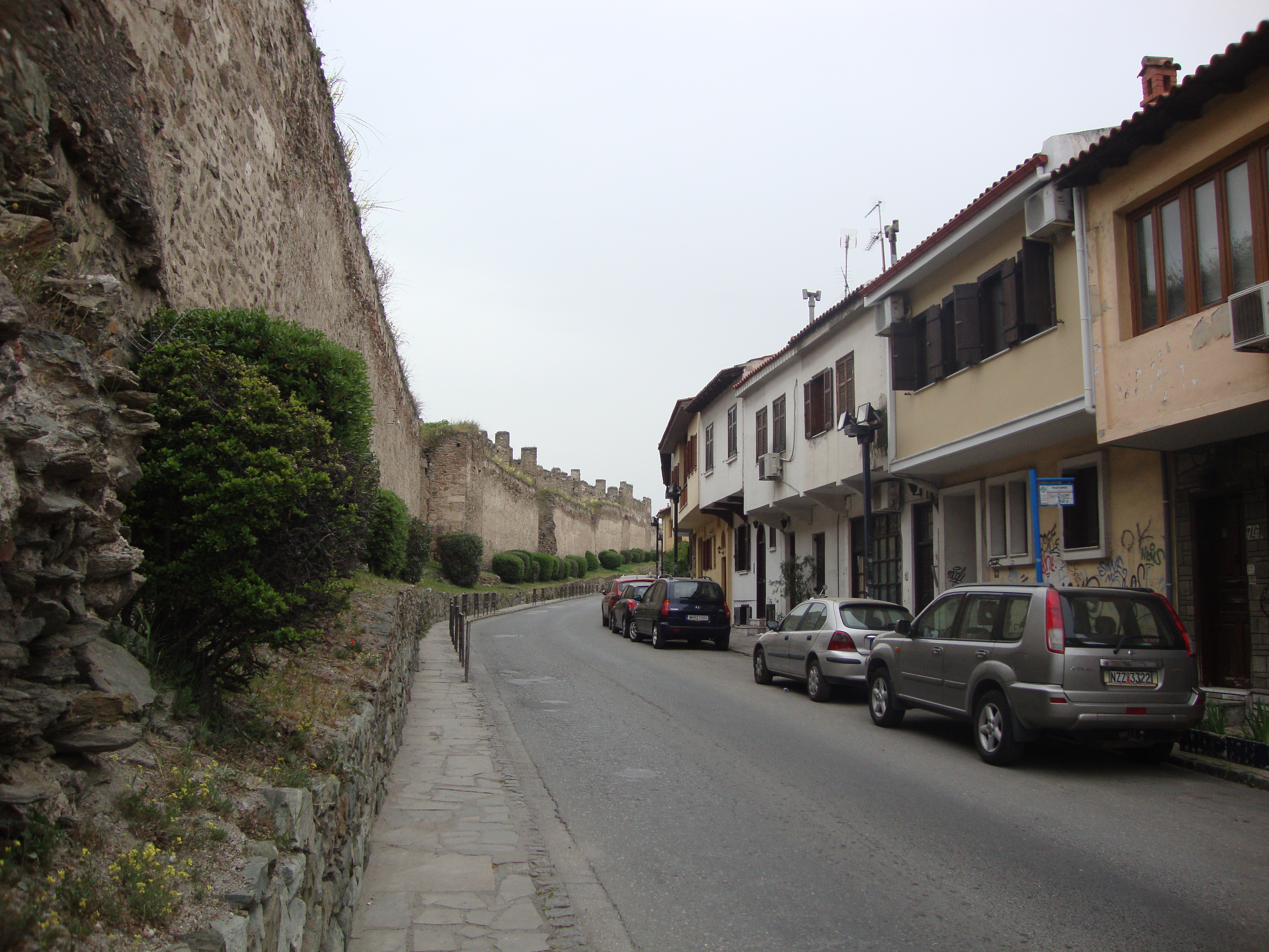 Thessalonikki, Macedonia, Greece